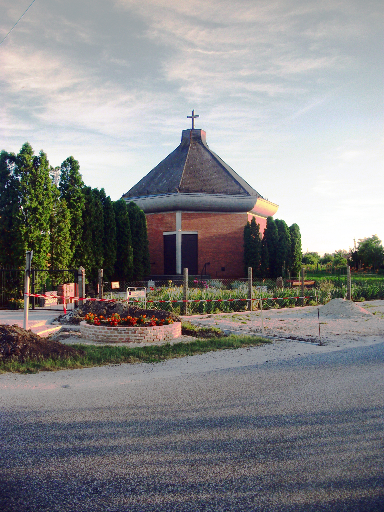 Saint Emeric chapel in Zichyújfalu, Hungary.